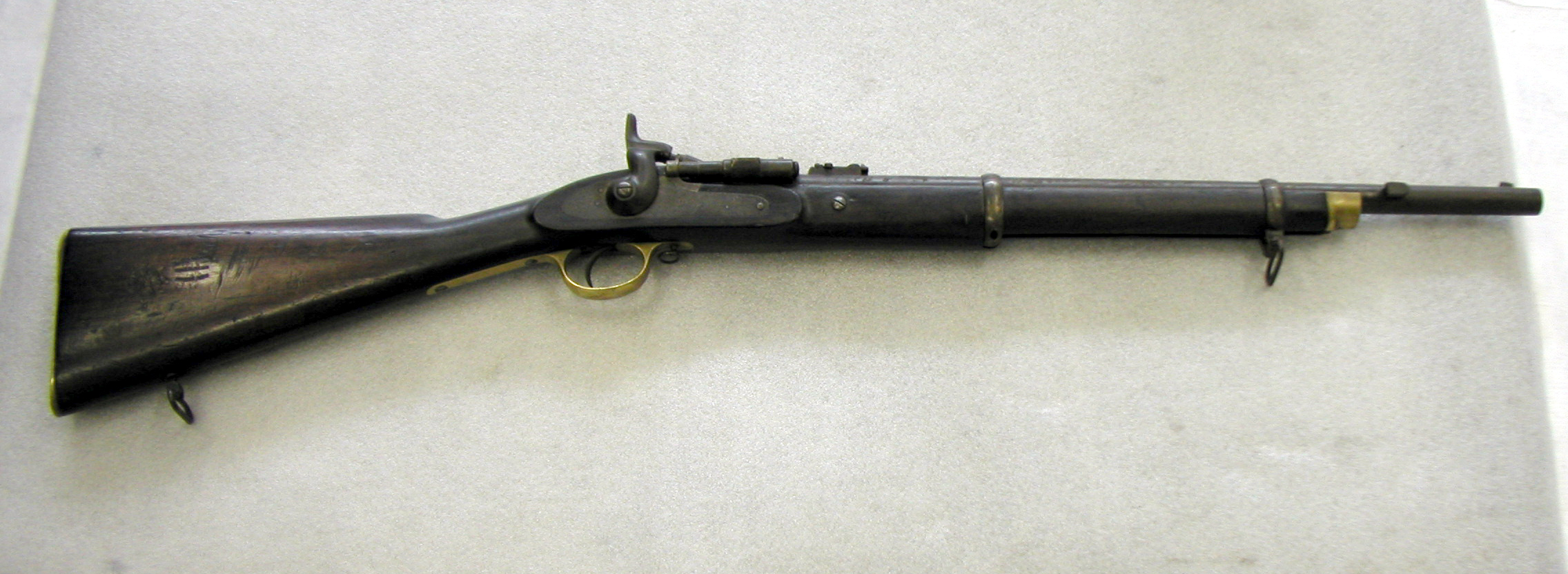 Snider Mk II .577 inch calibre artillery carbine; New Zealand Military issue, 1881 Snider Mk II .577 calibre artillery carbine; two barrel bands; two sling swivels; brass endcap, trigger guard, butt plate, and washers; screws provision for leather sight protector; this last 1880 contract of 2100 carbines is of particular interest for two reasons; firstly because they were made by C.G. Bonehill of Belmont Road of Birmingham, and secondly due to their being supplied without sword bayonet and having leather sight covers fitted in the mode of the cavalry carbines missing- clearing rod; nipple protector and chain; left hand screw for sight protector markings- on lock- 1880 - CG BONEHILL; (crown) - VR; lockmaker's mark and (broad arrow) left hand side of barrel and body- various manufacturer's and proof marks and sold out service marks stamped on stock- W H HAZARD - GUN MAKER - AUCKLAND on top of breech- N 81 Z - 1(6)14 on top of breech block- C.C.B; (crossed rifles) - WD; sold out of service marks inside breech block- 314 cartouche in butt- BELMONT WORKS - BIRHM; in centre (broad arrow) - WD; sold out service mark beneath on butt tang- sold out of service mark - WD; (crown) - 12 - R